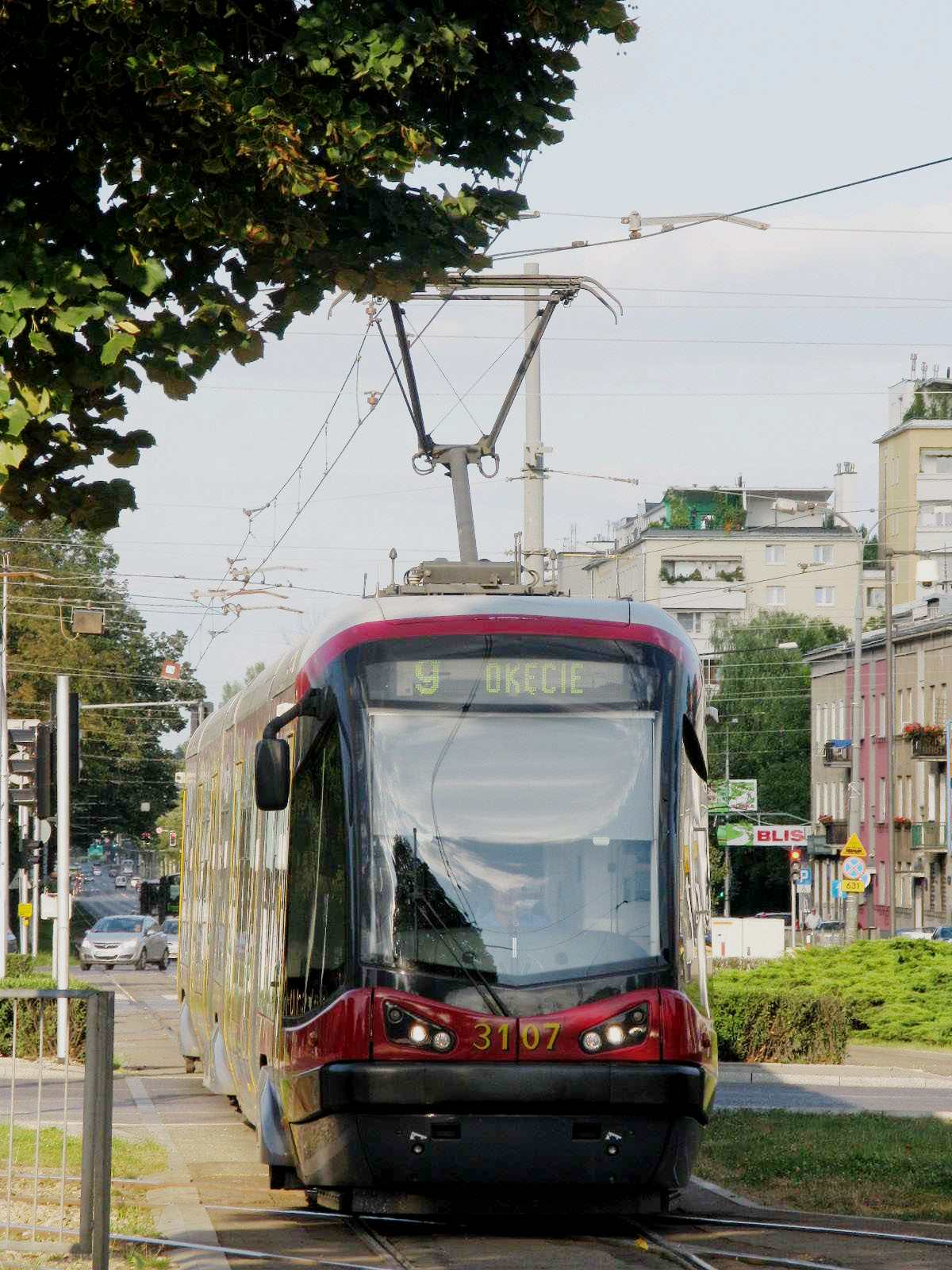 PESA 120N tram (#3107) in Warsaw, Poland. Built 2007, Tramwaje Warszawskie operator.